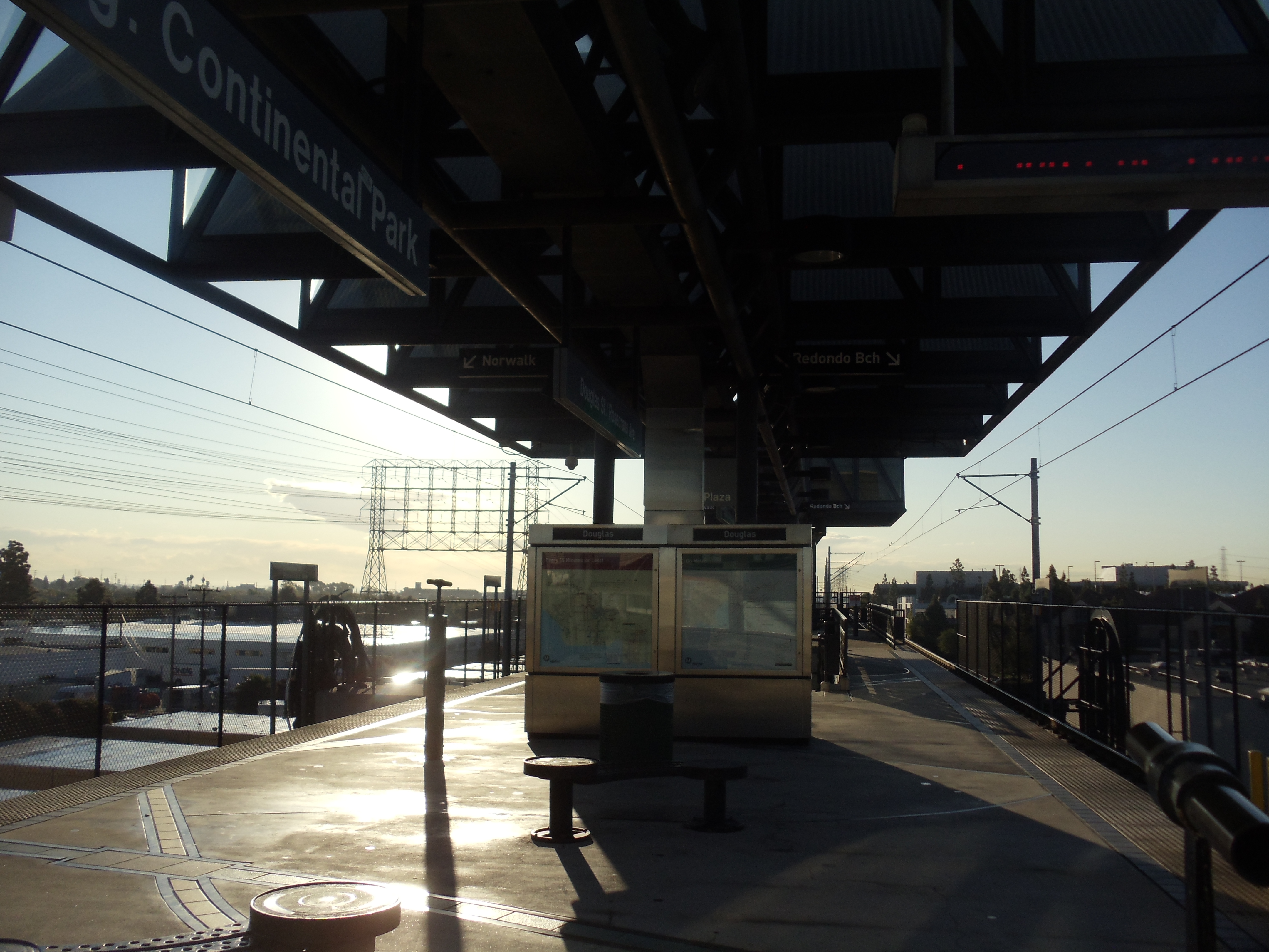 Douglas Station overview.